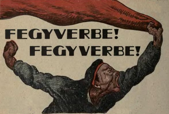 Recruiting posters for the Hungarian Red Army, 1919.